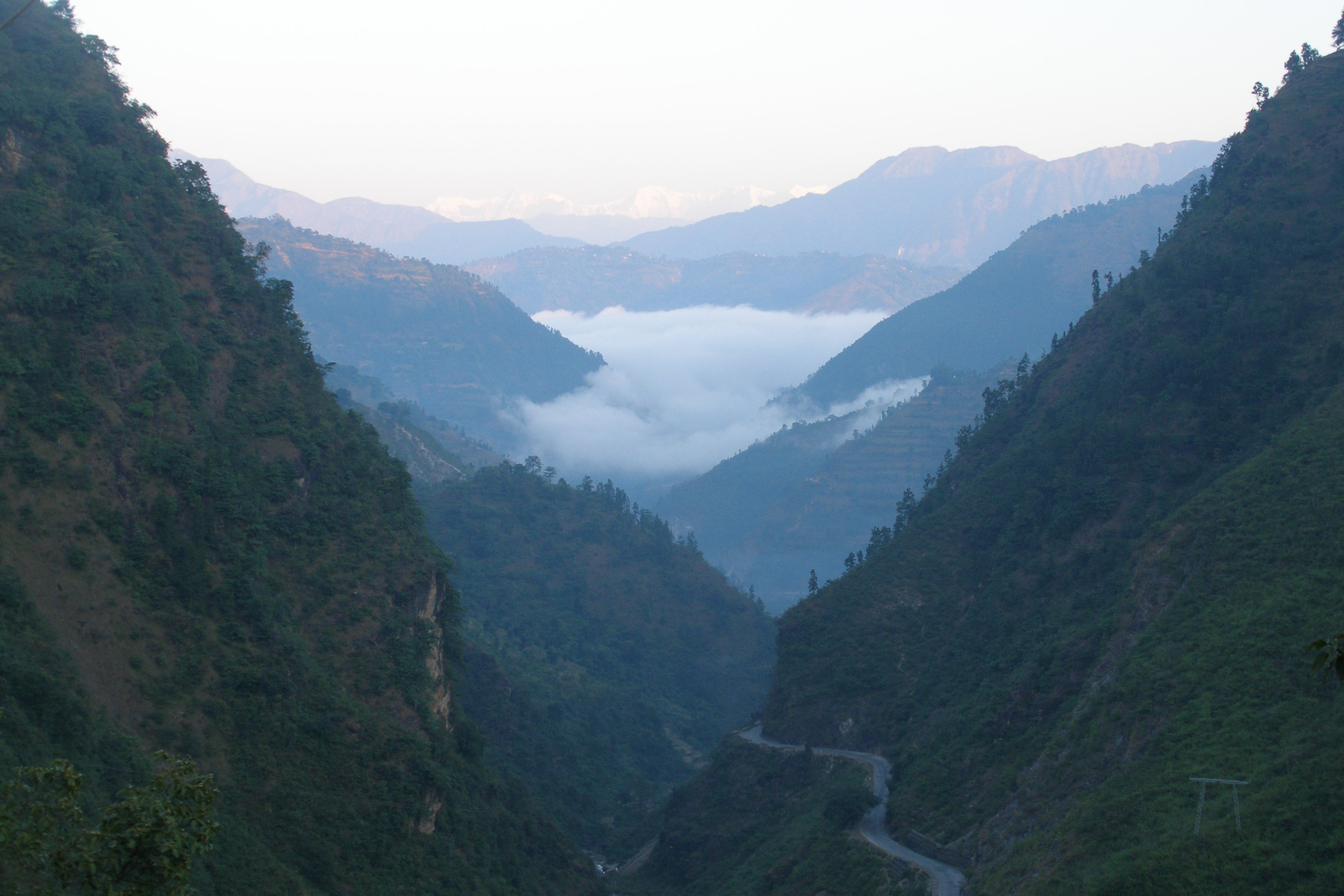 Road through the Mahabharat Range (Lesser Himalaya) near Tansen, Nepal. In the background the Greater Himalaya (snow)